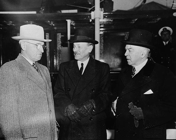 President Harry Truman and Rt. Hons. Clement Attlee and Mackenzie King boarding U.S.C.G. Sequoia for discussions about the atomic bomb